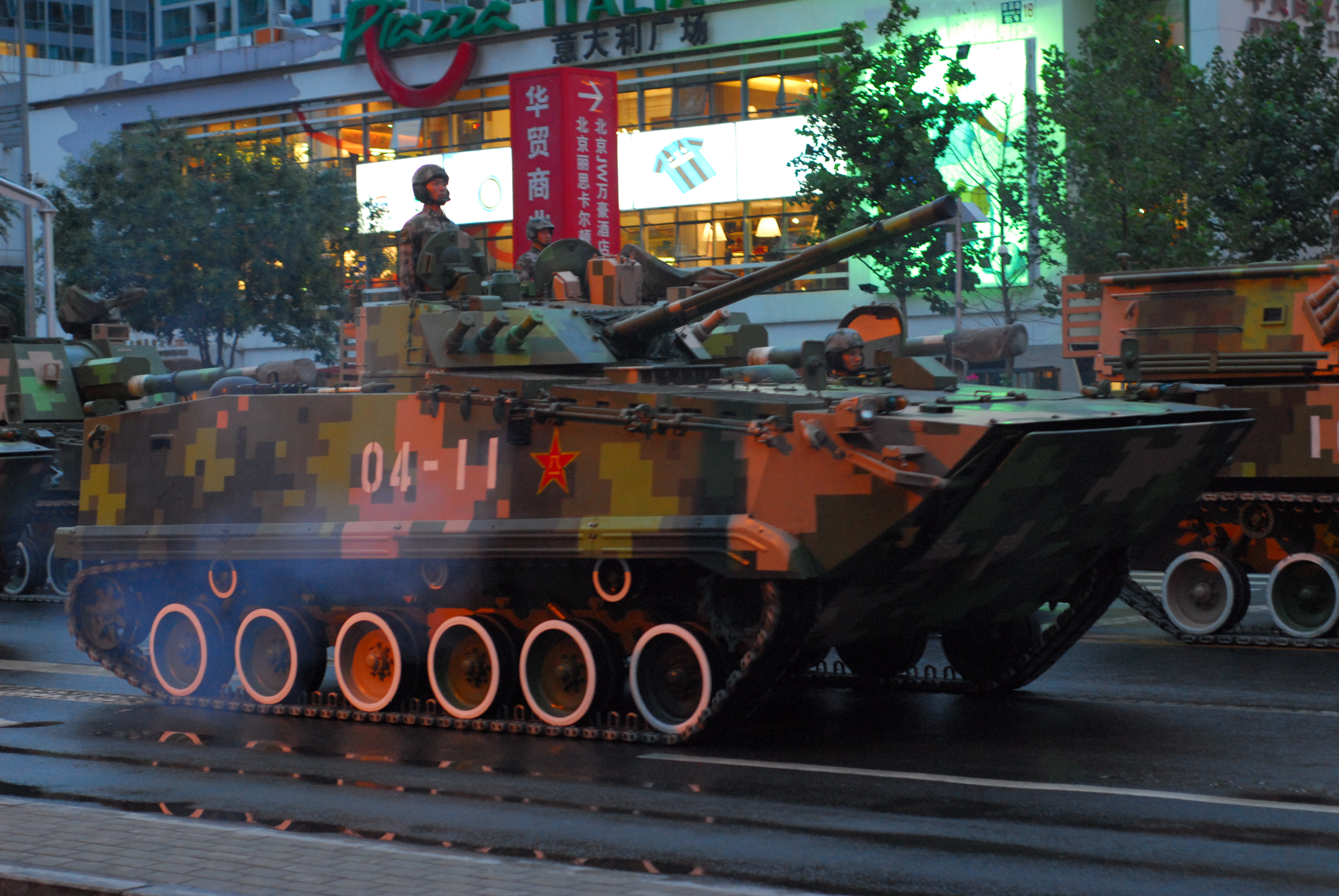 Training exercise for the military parade scheduled for October 1 2009, to celebrate China's 60th Anniversary. The tanks rolled down Xidawang Lu in Chaoyang district in the east side of central Beijing past the luxurious shopping centre Shin Kong Place.